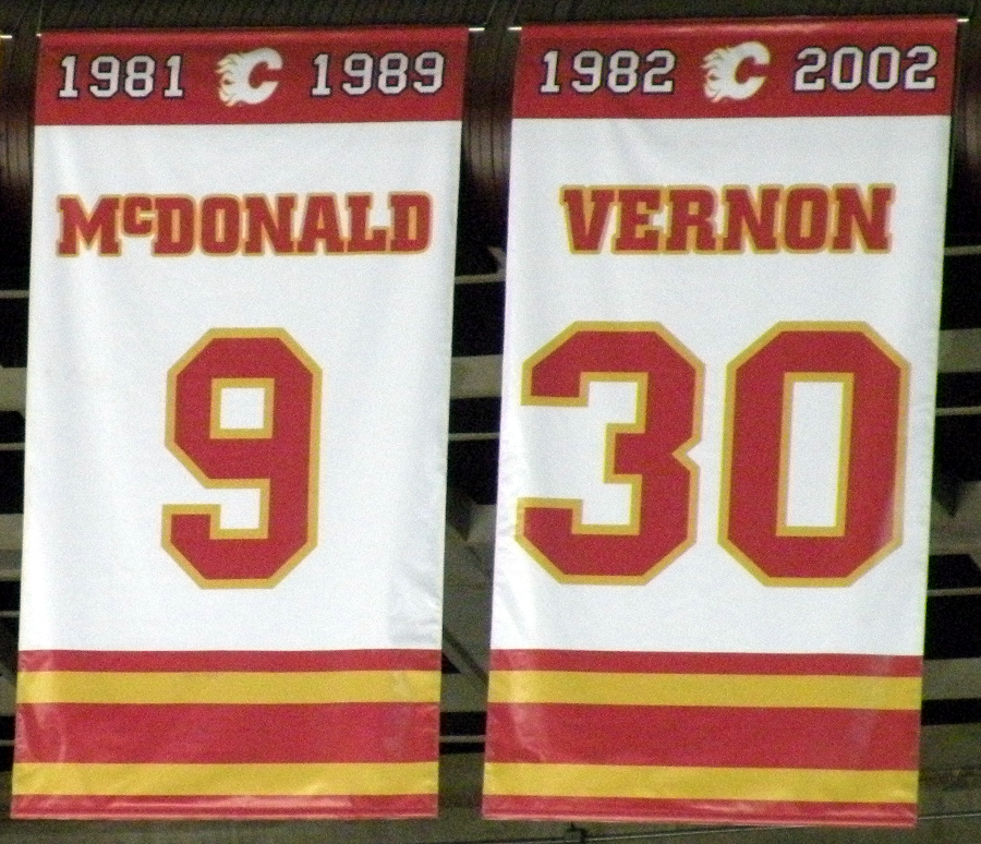 Retired number banners for Lanny McDonald and Mike Vernon hanging at the Scotiabank Saddledome in Calgary.